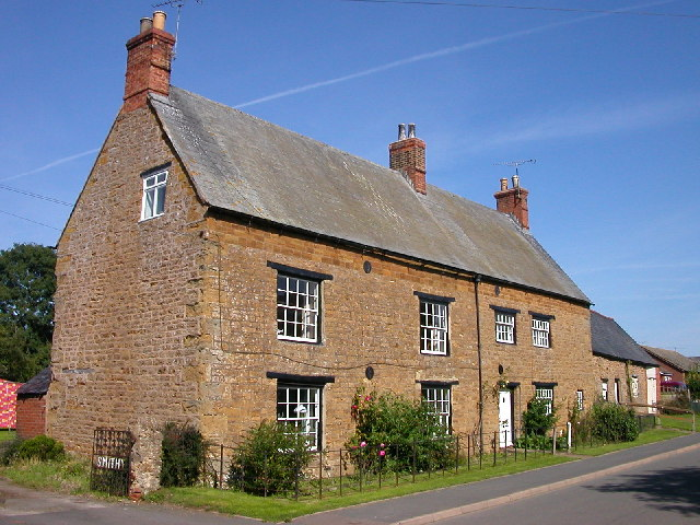 The Smithy, Main Street, Willoughby, Warwickshire